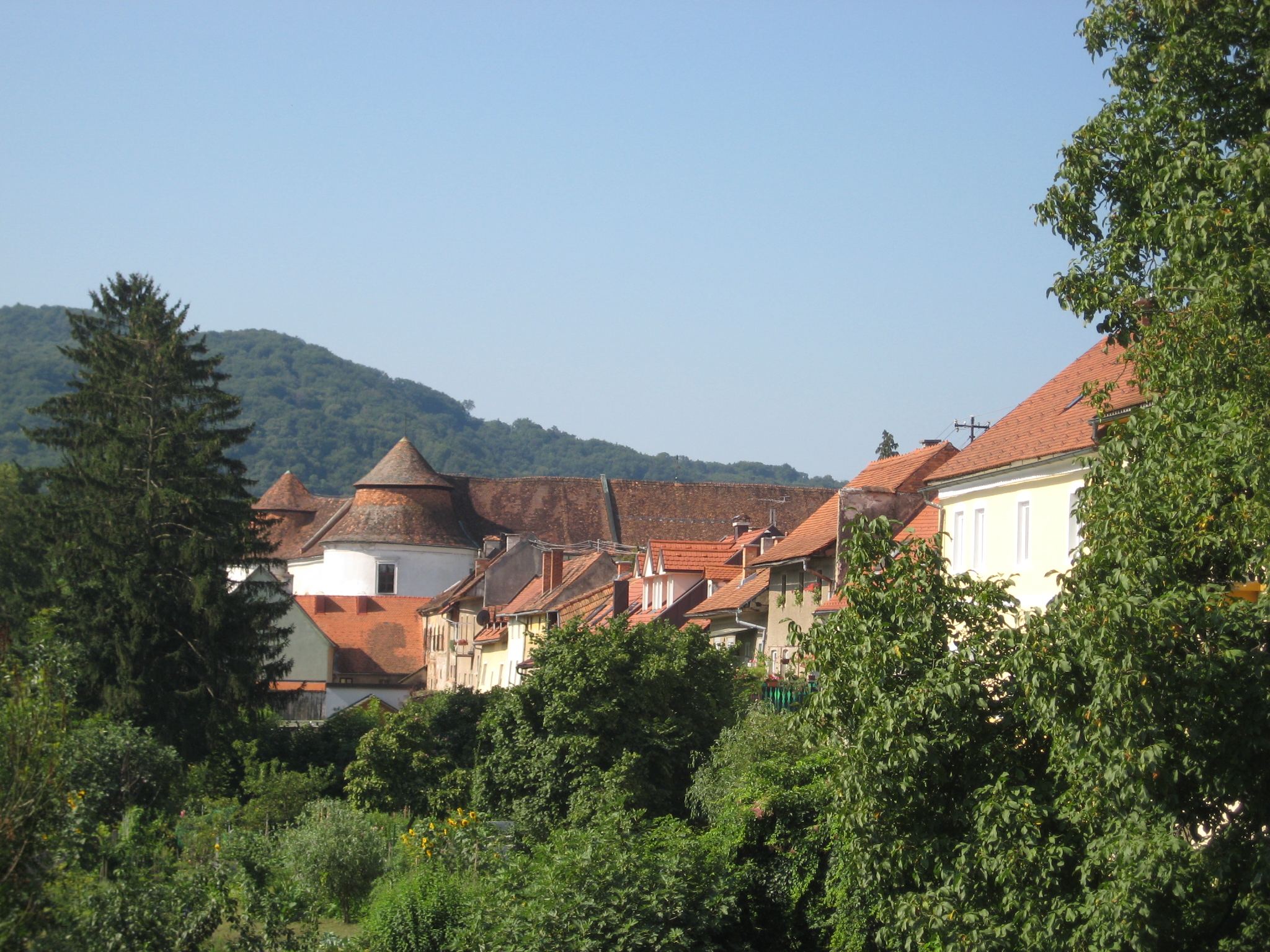 Brežice, town in Slovenia